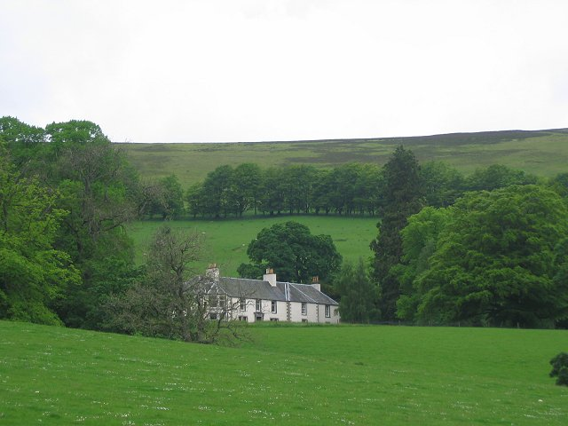 Mossfennan. Large house in a bowl on the west side of Tweeddale. Above -grouse moors, below - improved grazing and the Tweed.